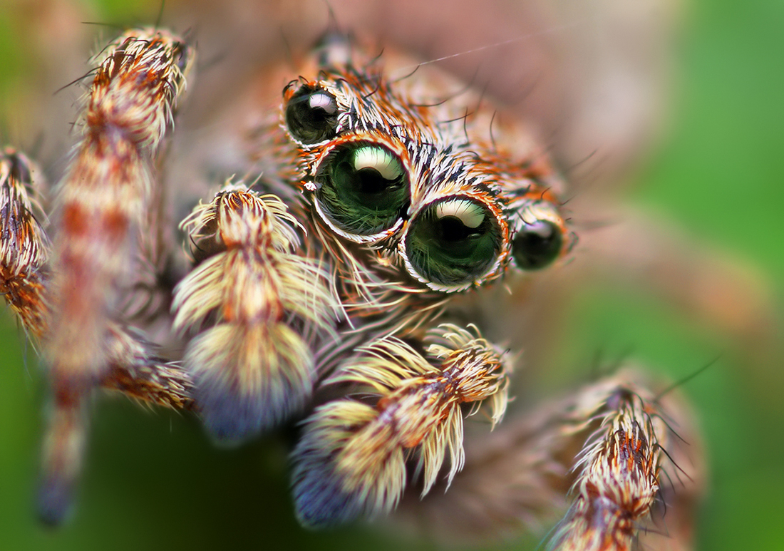 First of all, I apologize for the blown orange hairs, I had to salvage this image from a pretty underexposed photo. Found this little one (~3-4mm) on an outside window sill. I'm not at all familiar with this genus, and at the time of writing this, I don't know the species or even the gender. A nice looking spider, the colorations and patterns of scales are great. The palps have some interesting hairs as well. Taken at ~7:1 with the 28mm reversed to the bellows at f/5.6. EDIT (11/6/08): I contacted Wayne Maddison about this spider, as I couldn't find an entry for it on . He identified it as a female Sitticus fasciger. For an interesting paper on this species, see 2.0.CO;2-1 here. Pretty exciting stuff, this is a whole new genus for me, and an interesting spider as well. Looks as though they first came to the US in the late 1950's.